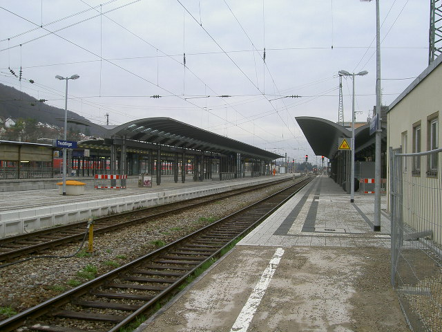 Railway station of Treuchtlingen (2005)